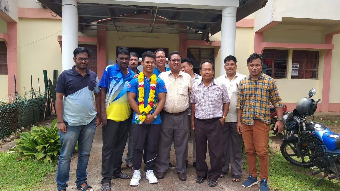 Esow Alben at his home island where he was invited as guest of honor at closing ceremony of XXIV Vice President Of India Cup Soccer Championship 2019 at the BJR Stadium, Tamaloo, Car Nicobar on September 2019. He was also felicitated for his achievements.